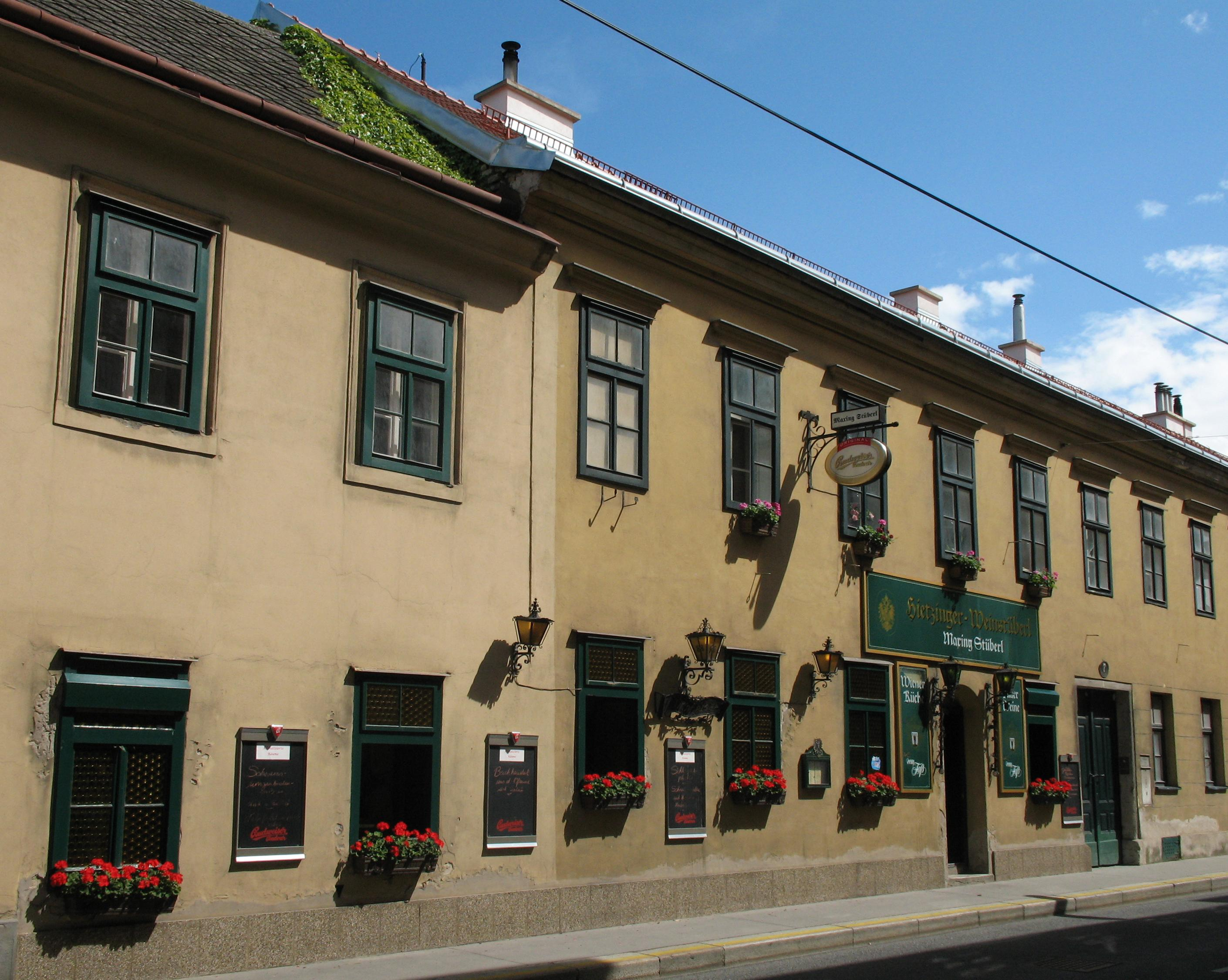 „Maxing Stüberl“ in Vienna, Austria